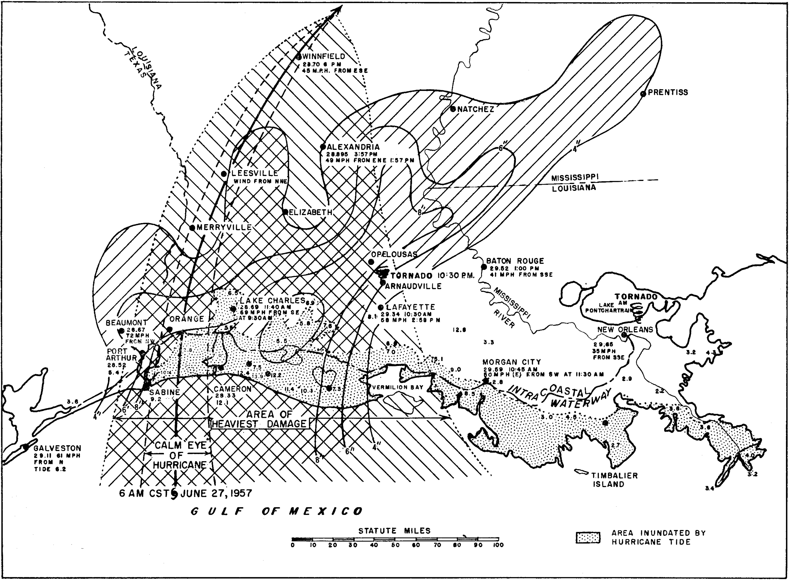 Map showing the extent of winds and rainfall along with Hurricane Audrey's track at landfall in Louisiana.